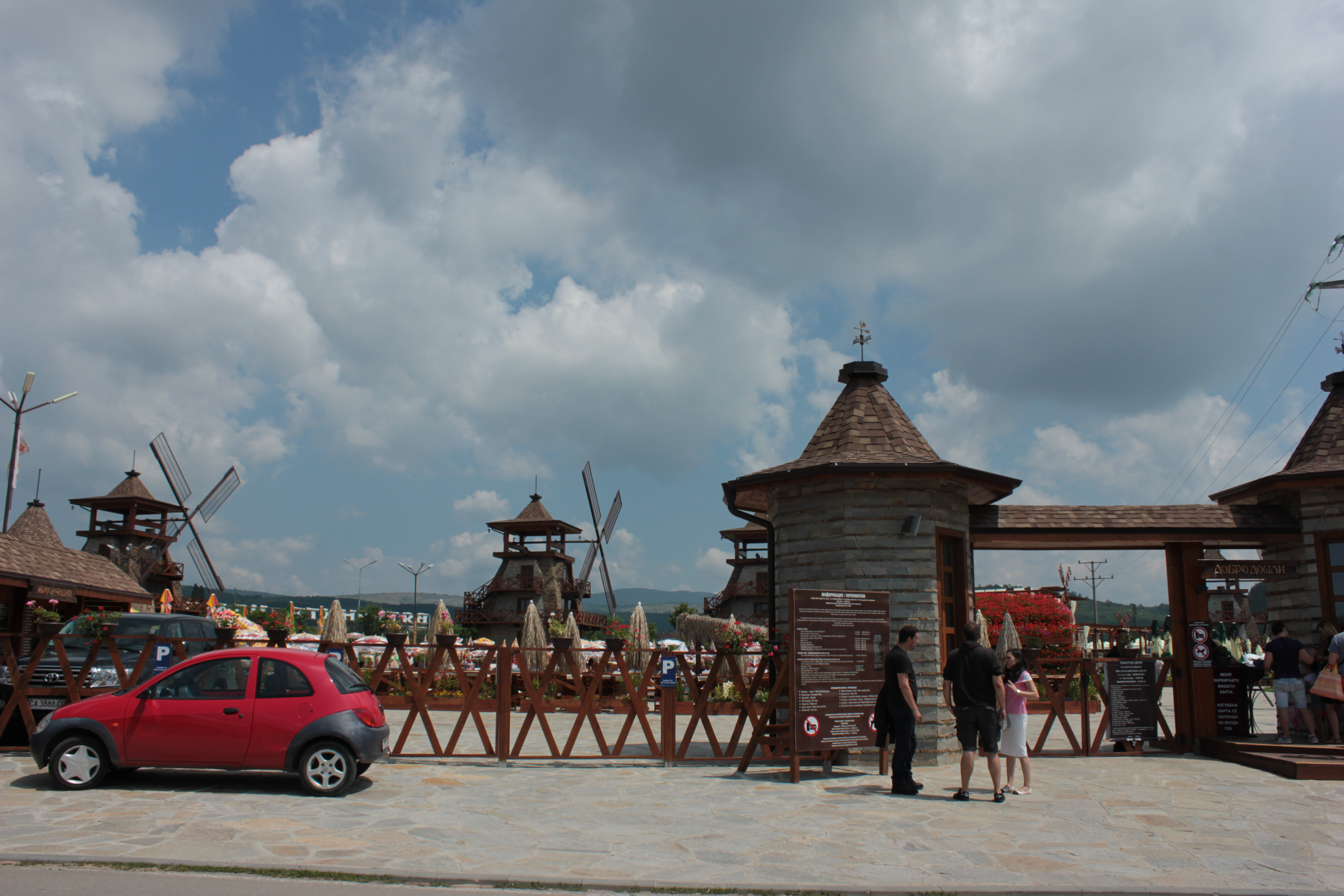 Windmill Park in Gorna Malina